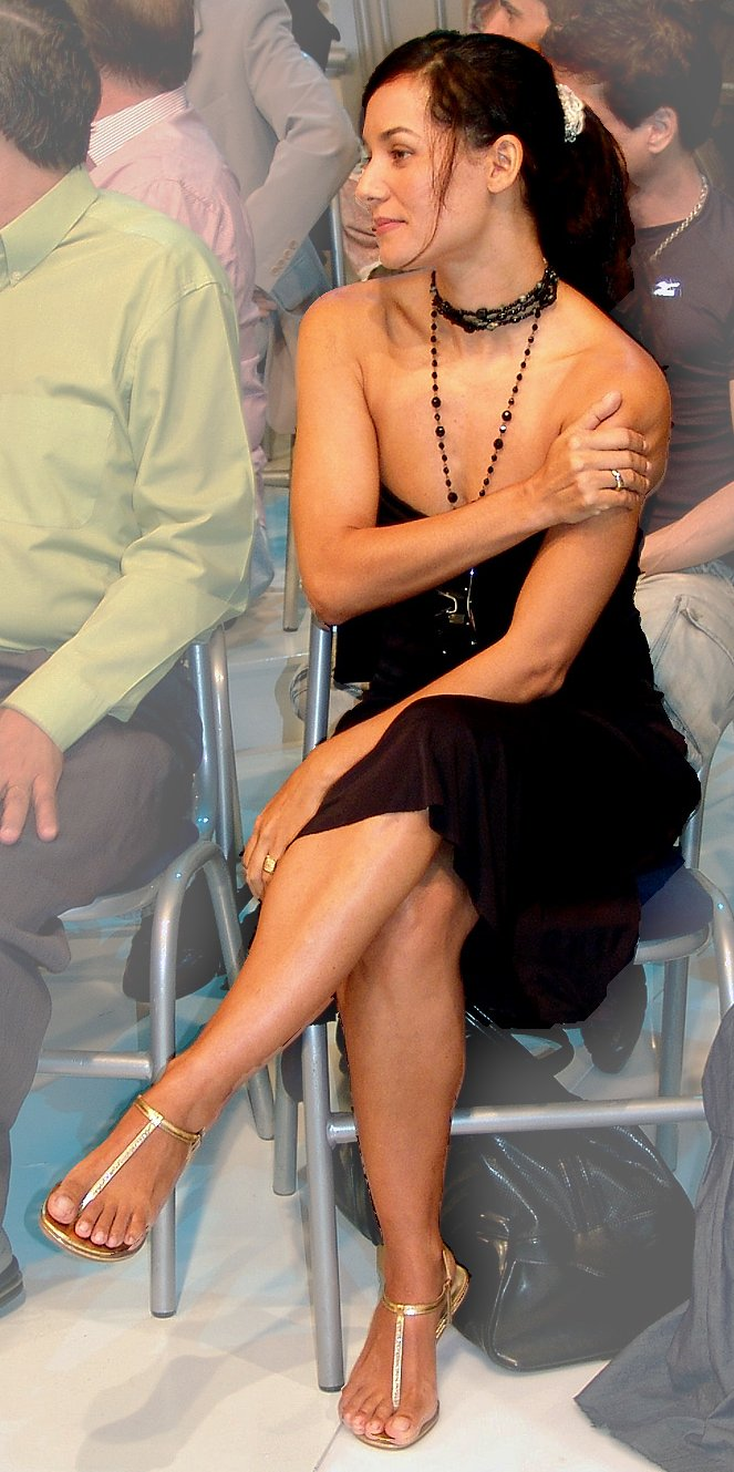 Brazilian actress Mônica Carvalho.